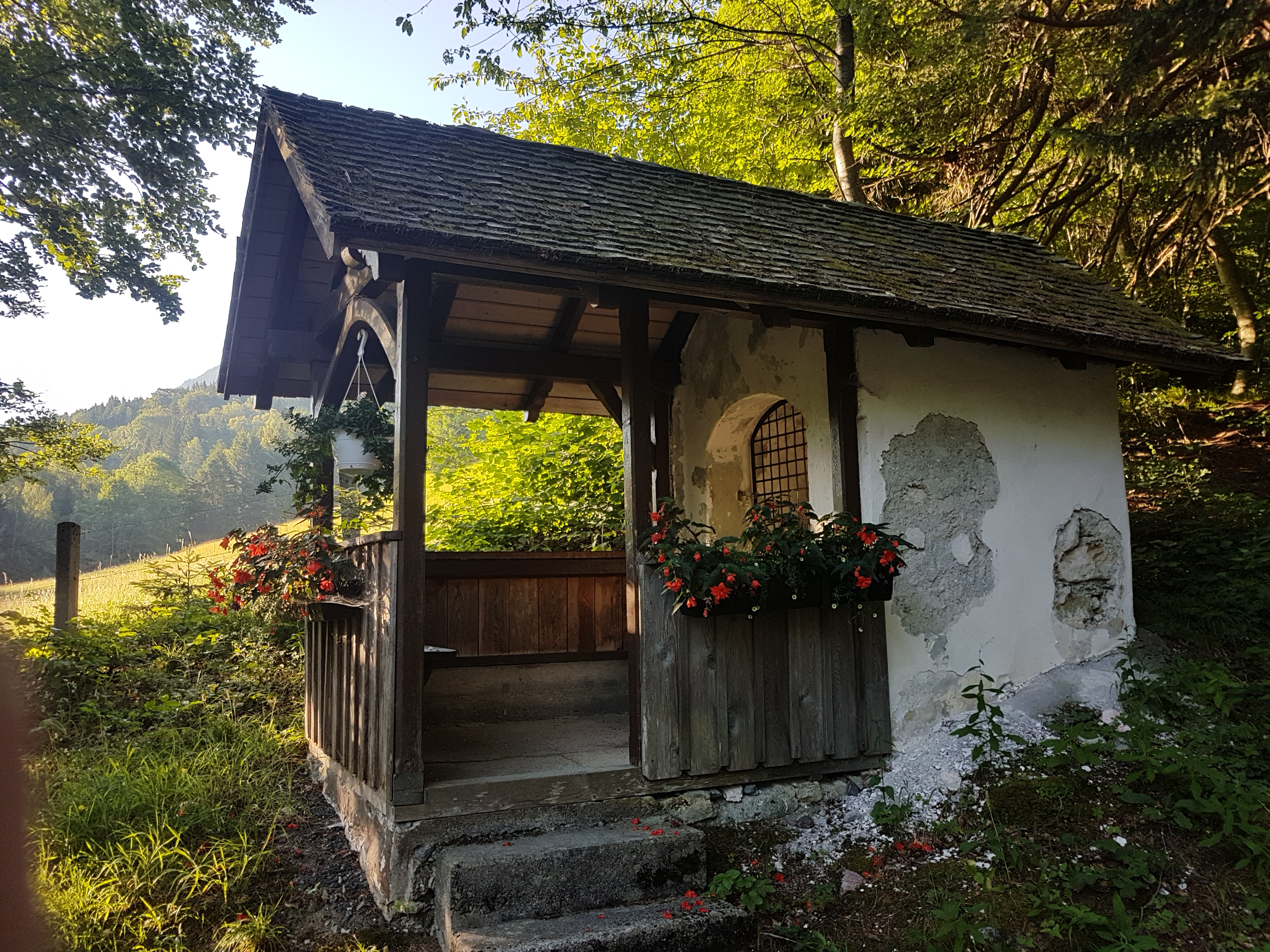 Chapell Stellveder (about 757 m asl) on the Gamperdonaweg in Nenzing, Vorarlberg, Austria. Listed object (ObjektID): 87984. The chapel was built in 1696 and built by Jörg Burkhmayer, Mich. Gantenbein and Krist. Mason donated. In 1904 this chapel was rebuilt by a donator (according to the altarpiece).